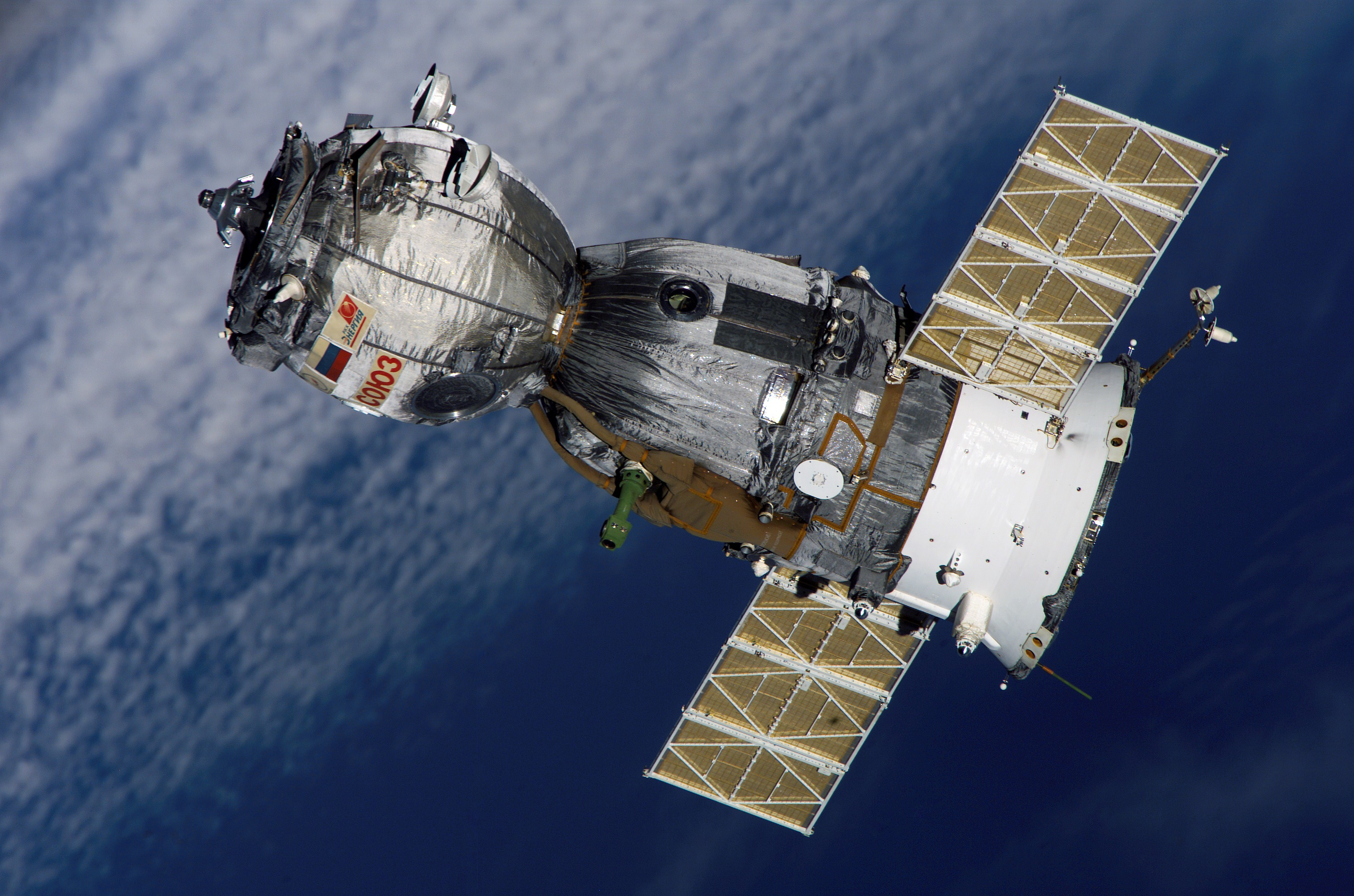 Backdropped by a blanket of clouds, the Soyuz TMA-7 spacecraft departs from the International Space Station carrying astronaut William S. (Bill) McArthur Jr., Expedition 12 commander and NASA space station science officer; Russian Federal Space Agency cosmonaut Valery I. Tokarev, flight engineer; and Brazilian Space Agency astronaut Marcos C. Pontes. Undocking occurred at 2:48 p.m. (CDT) on April 8.